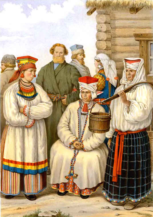 Velikorossijane